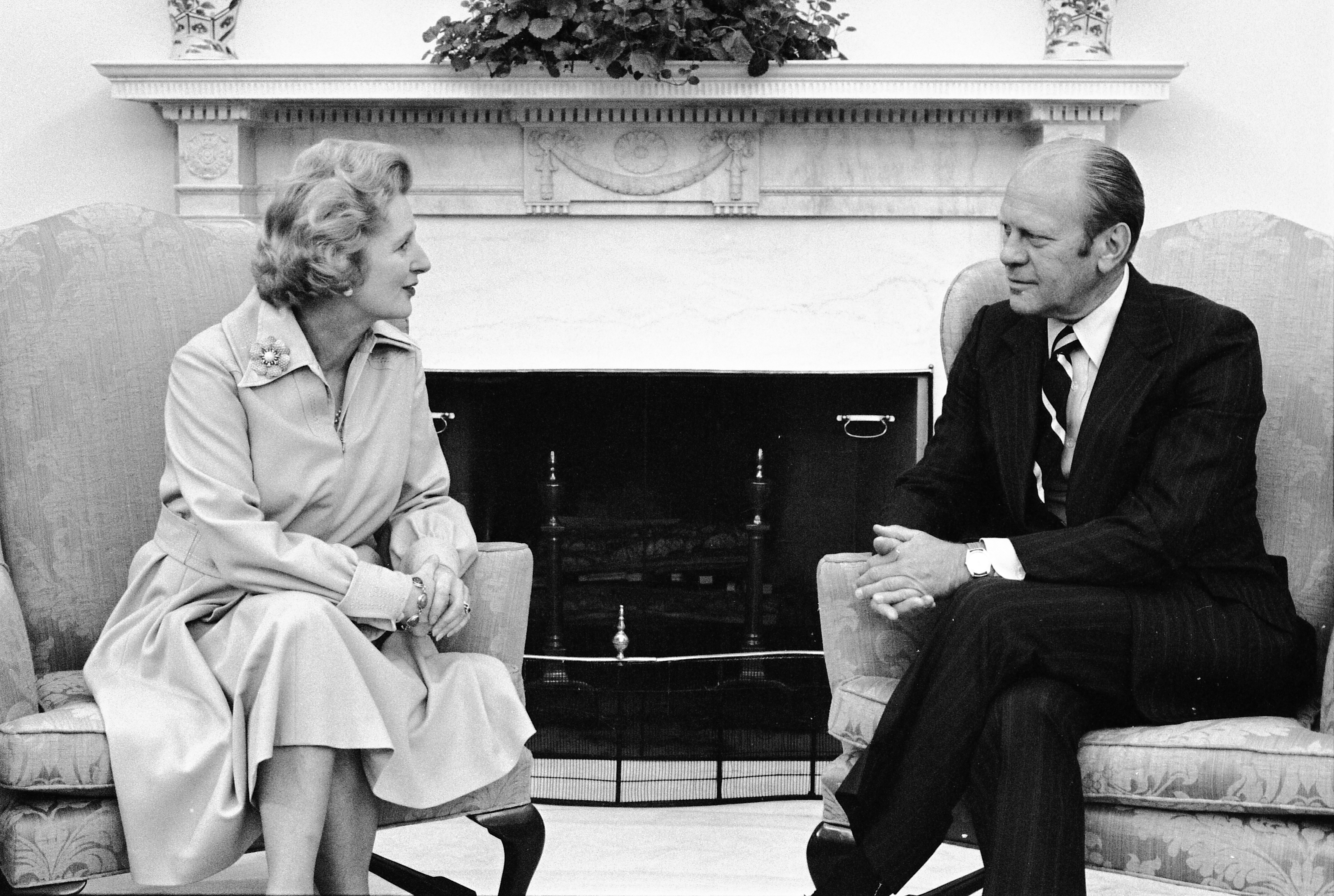 Gerald R. Ford, Margaret Thatcher – seated, talking near fireplace.